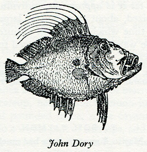 Wood Engraving of John Dory (a fish), in Eliza Acton's Modern Cookery for Private Families, 1845